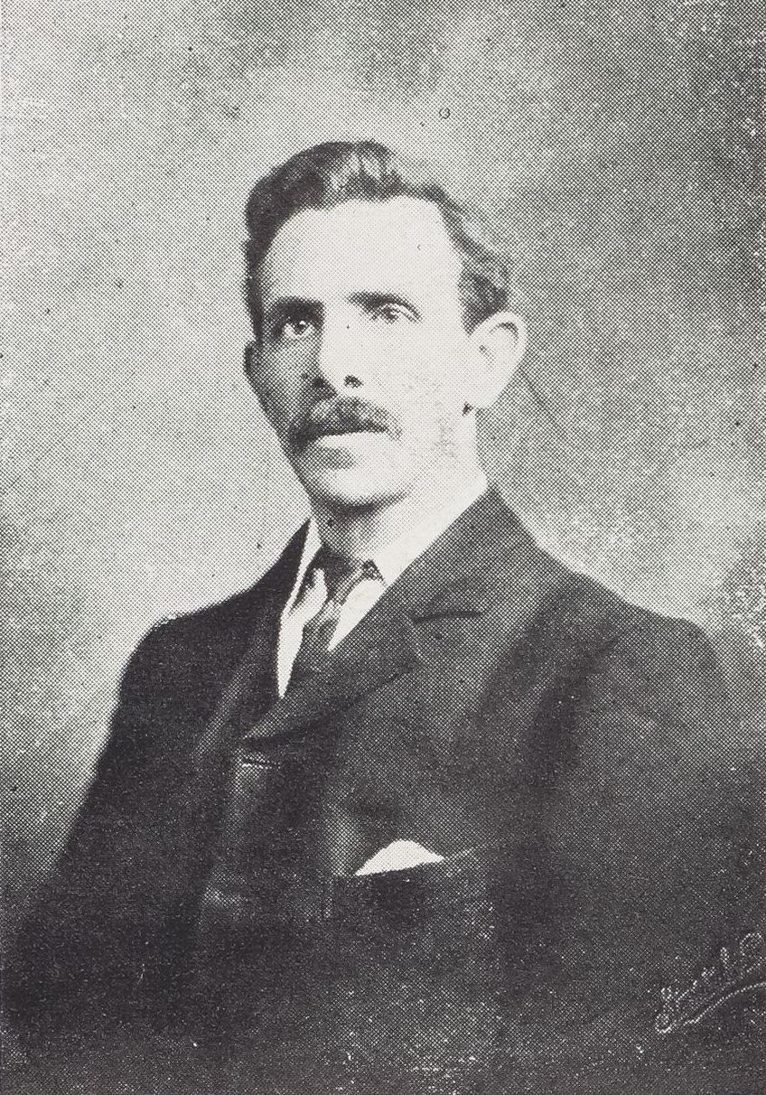 John Barr, President of the Christchurch Trades and Labour Council